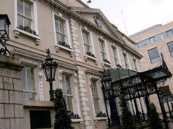 Mansion House, Dublin. My image. No c/r